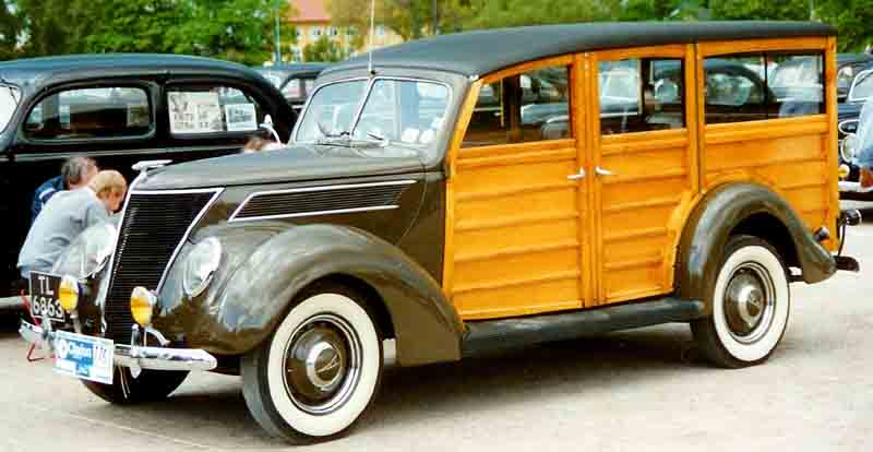 Ford Model 78 780 De Luxe Station Wagon 1937